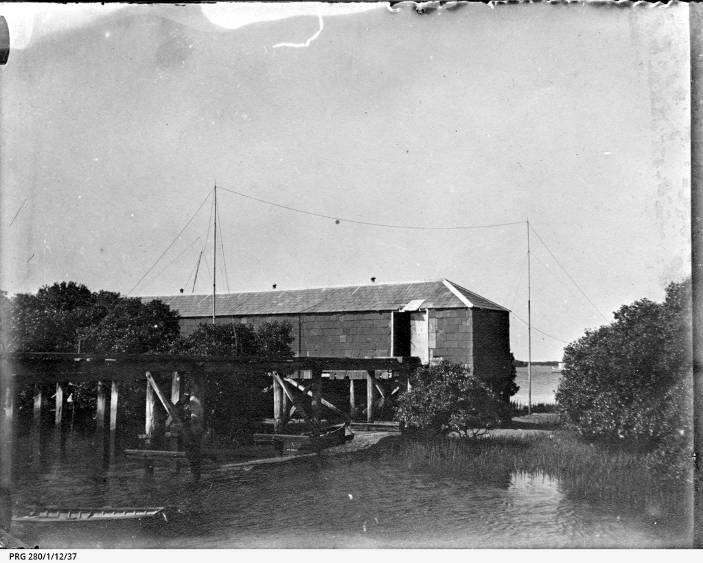 The old explosives magazine building at Angas Inlet in the Port River, Port Adelaide. State Library of South Australia, No known copyright restrictions Items on the State Library of South Australia catalogue designated as having 'no known copyright restrictions': have no known cultural sensitivities, and are out of copyright under Australian copyright law, or in copyright, but copyright is owned by the State Library of South Australia with unreserved use by State Library customers , or in copyright, but the copyright owner has freed them for unreserved use by State Library customers. Conditions of use Permission to use such items for any purpose, including publishing, is not required from the State Library however, the following conditions must be adhered to: Acknowledgement of the State Library is required to use this material for any purpose. Acknowledgement should include the phrase State Library of South Australia - followed by the Library's unique identifying number such as B 3456, PRG 1218/3 or OH 456/1. More information about citing material from the State Library's collection can be found on the page 'Acknowledging your State Library of South Australia sources'. If the catalogue record indicates additional conditions of use, such as those imposed by donors, then these must also be met. The State Library does not endorse or support derogatory use of any item from its collection. Re-publishing of an item does not create a new copyright in this item.